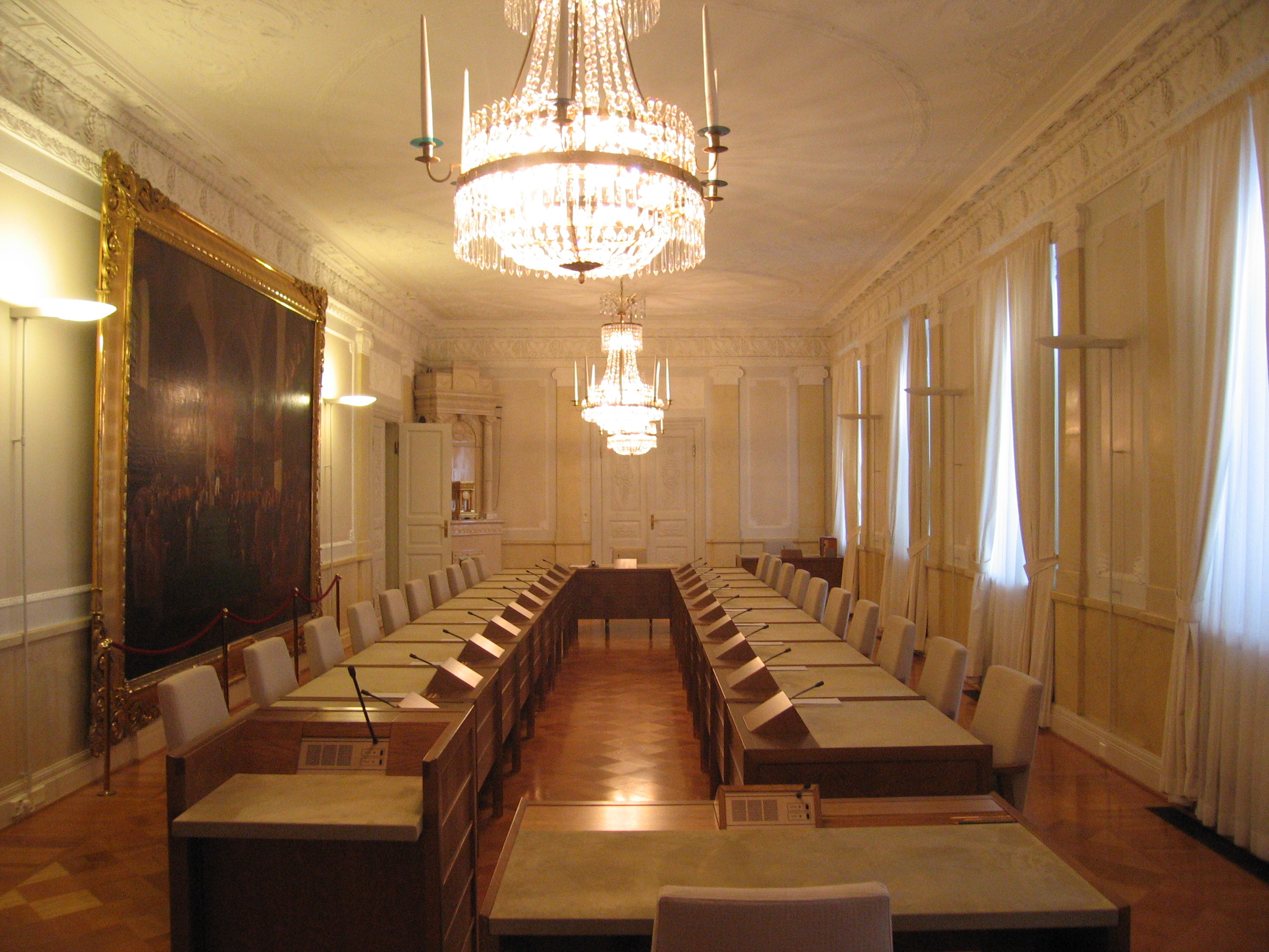 The Government Palace, Helsinki, Finland